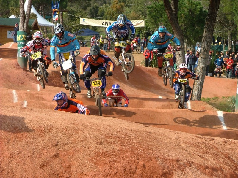 BMX racing action photo (Sainte Maxime - France - 23rd April 2005 - First round of the 2005 European BMX Championships)